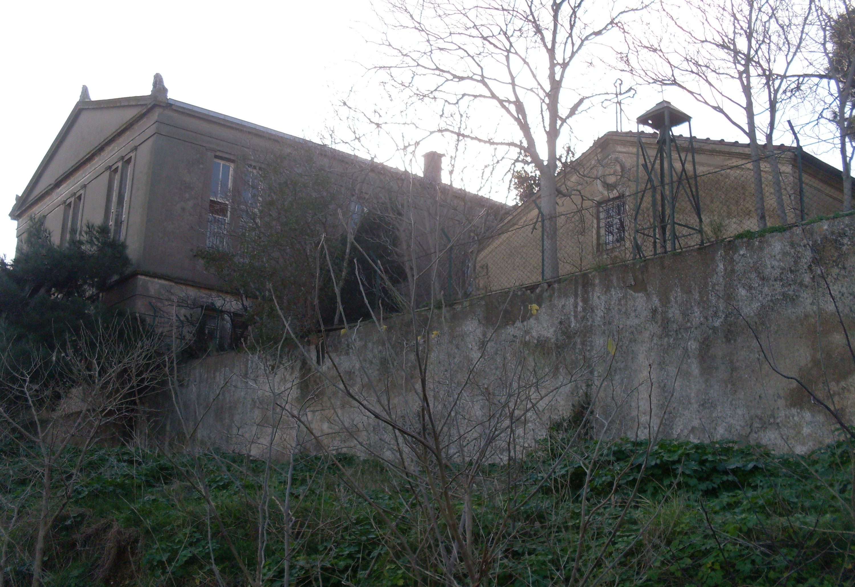 Christo Monastery 2010